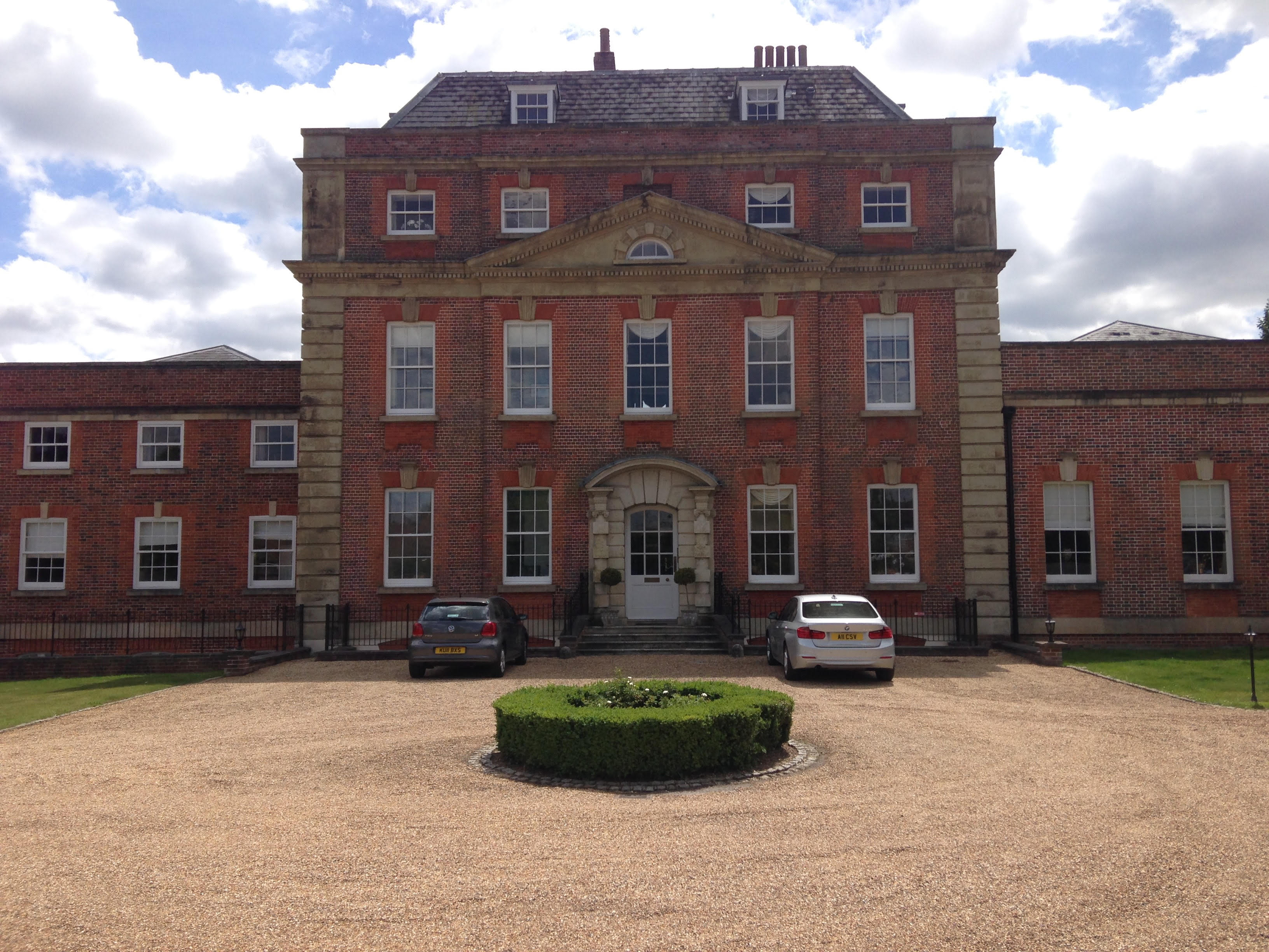 Milford House, Surrey